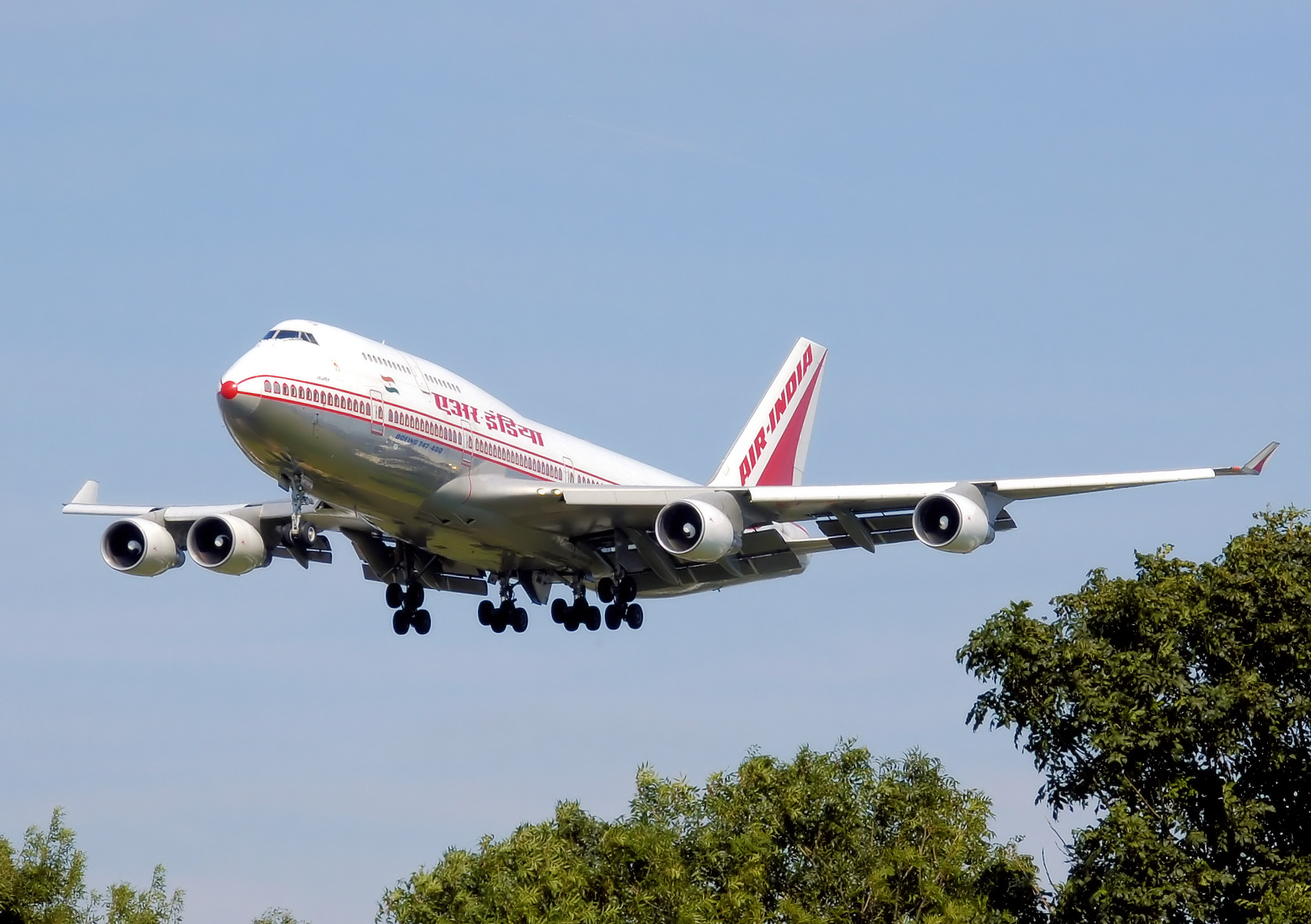 Air India Boeing 747-400 (VT-ESN) head on, landing at London Heathrow Airport, England.